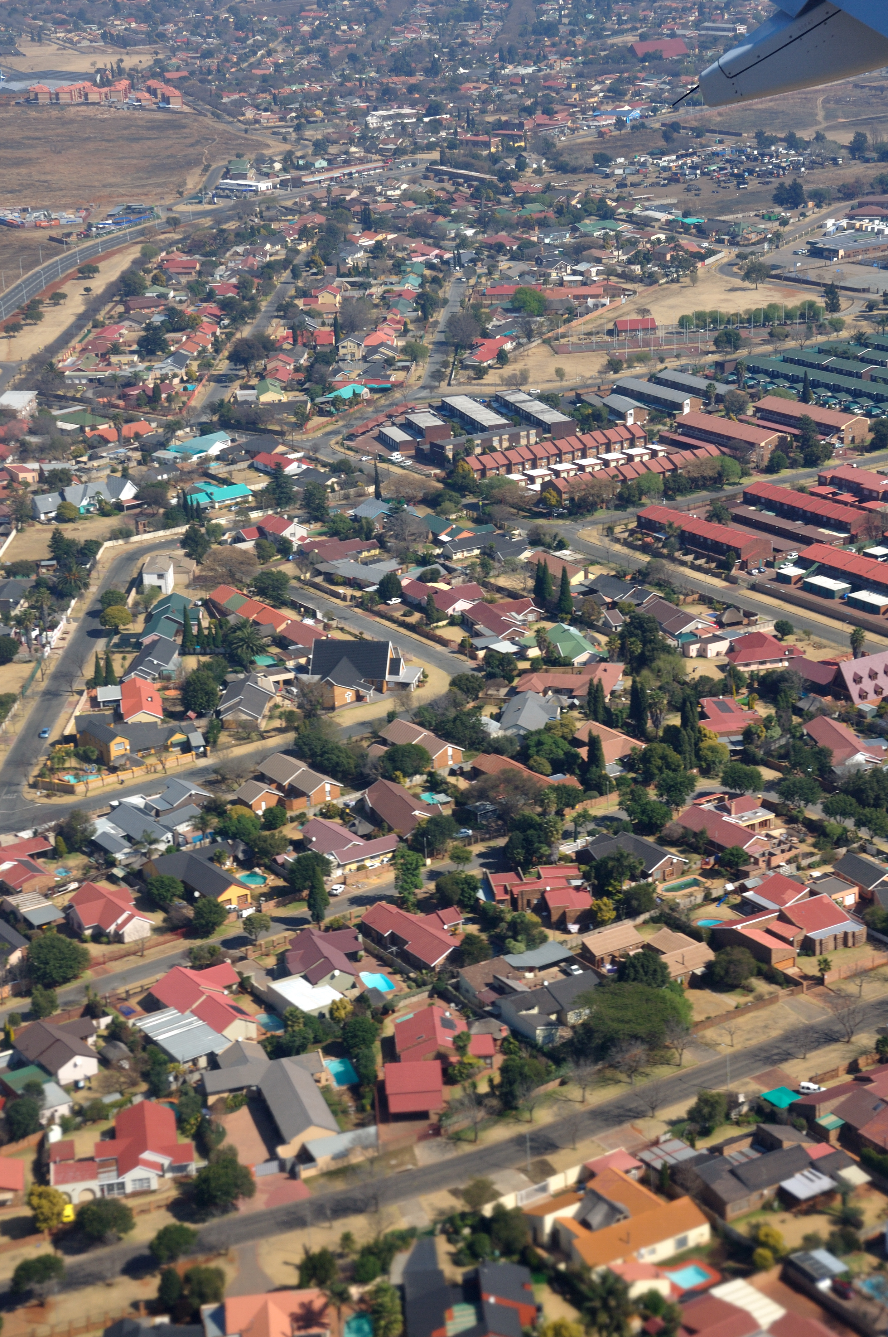 South Africa, Aerial view overhead Boksburg